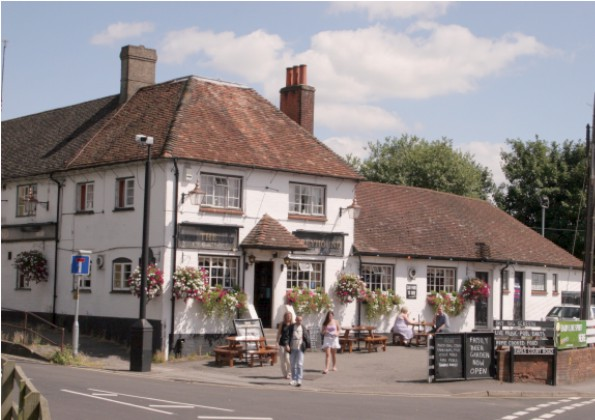 The Greyhound inn at Amesbury